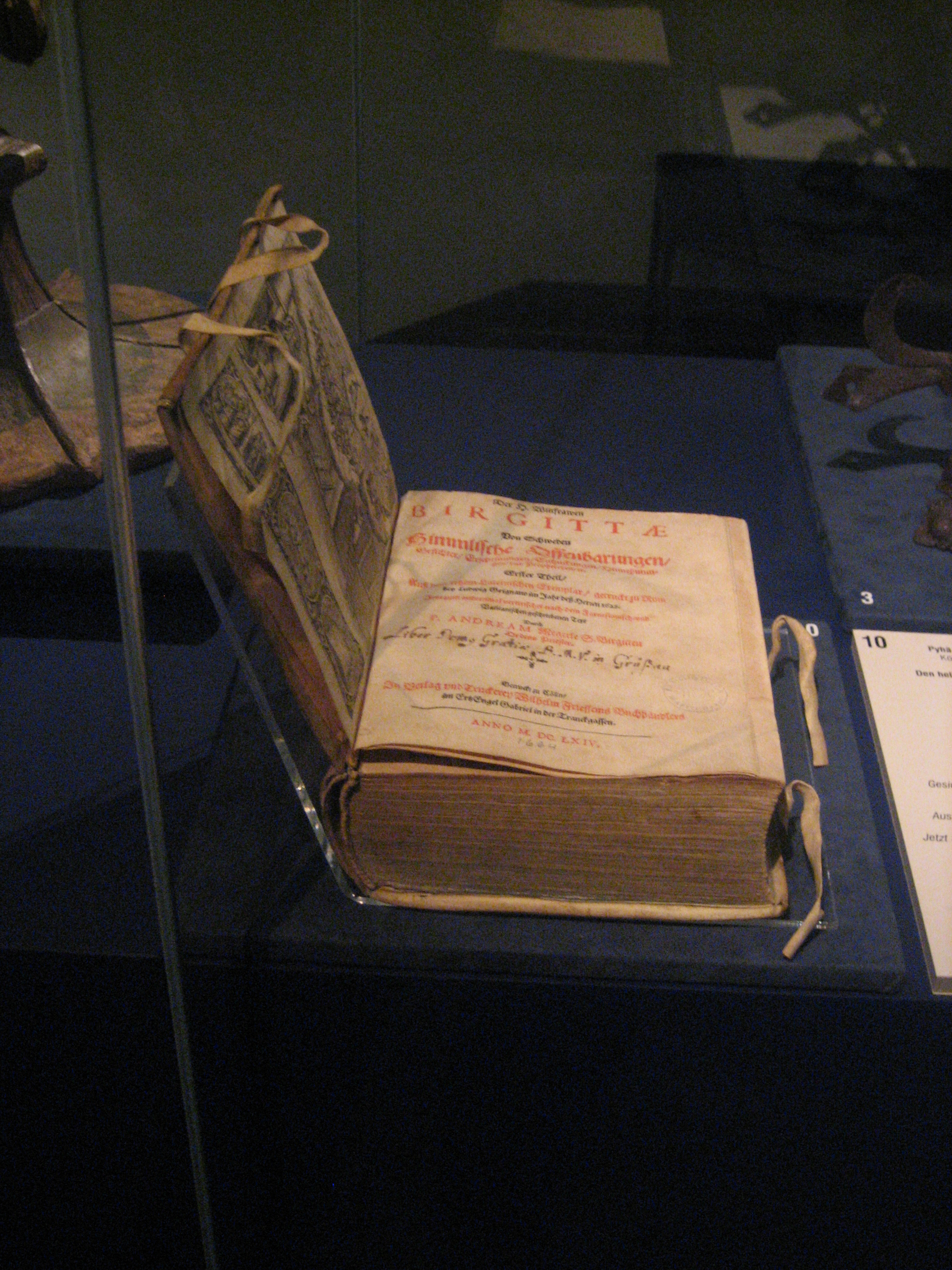 The visions of Bridget of Sweden, a German version printed in 1664, preserved in Finnish Nationalmuseum, Helsinki